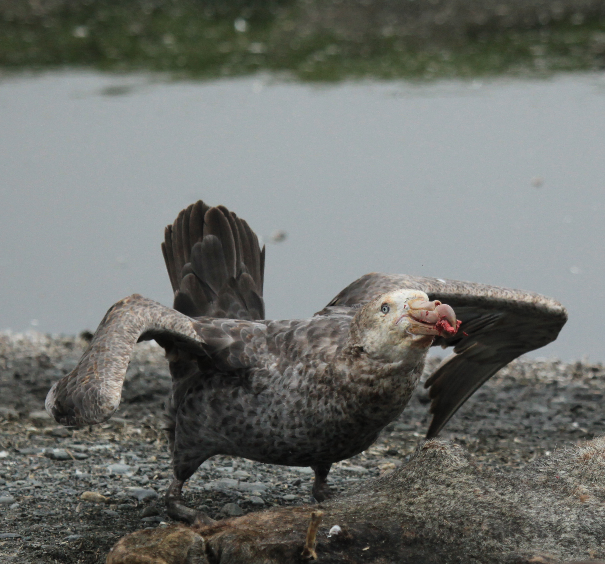 A Northern Giant Petrel eating a dead seal on Salisbury Plain, South Georgia, British Overseas Territories, UK.